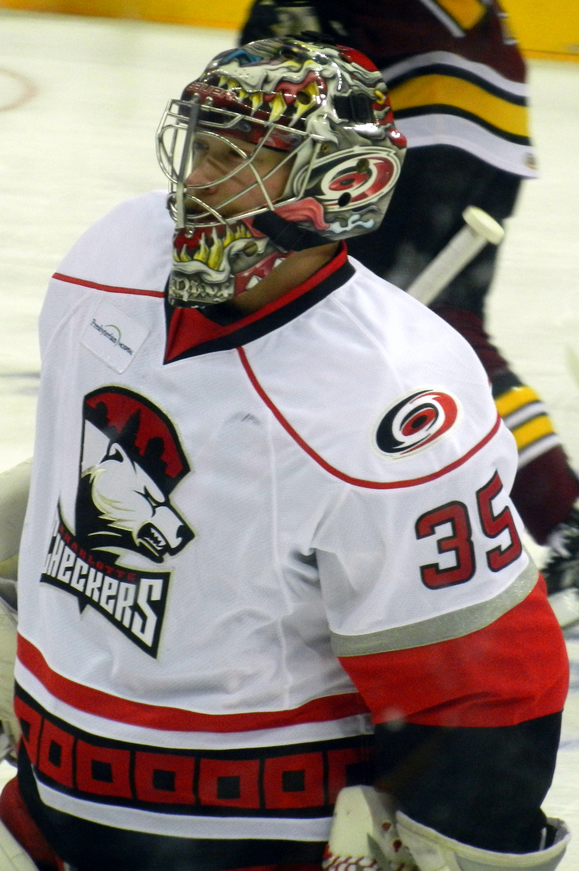 Justin Peters playing for the Charlotte Checkers during the 2012-13 season